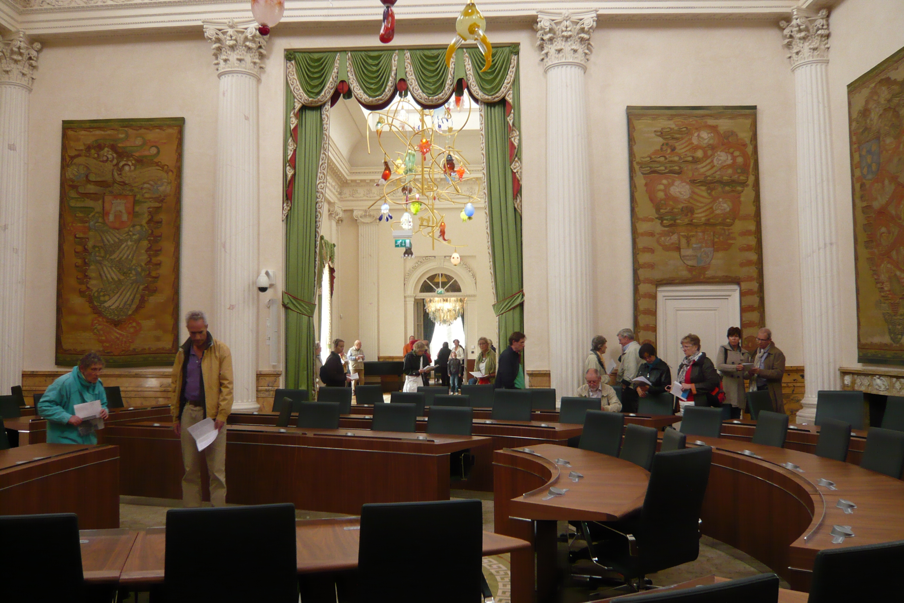 Meeting room of the Province of North Holland in Villa Welgelegen after 2009 restoration. Chandeliers are by Michel van Overbeeke. In 2009, he received the local prize "De Olifant" for these chandeliers, as well as his colorful window in the St. Bavokerk.